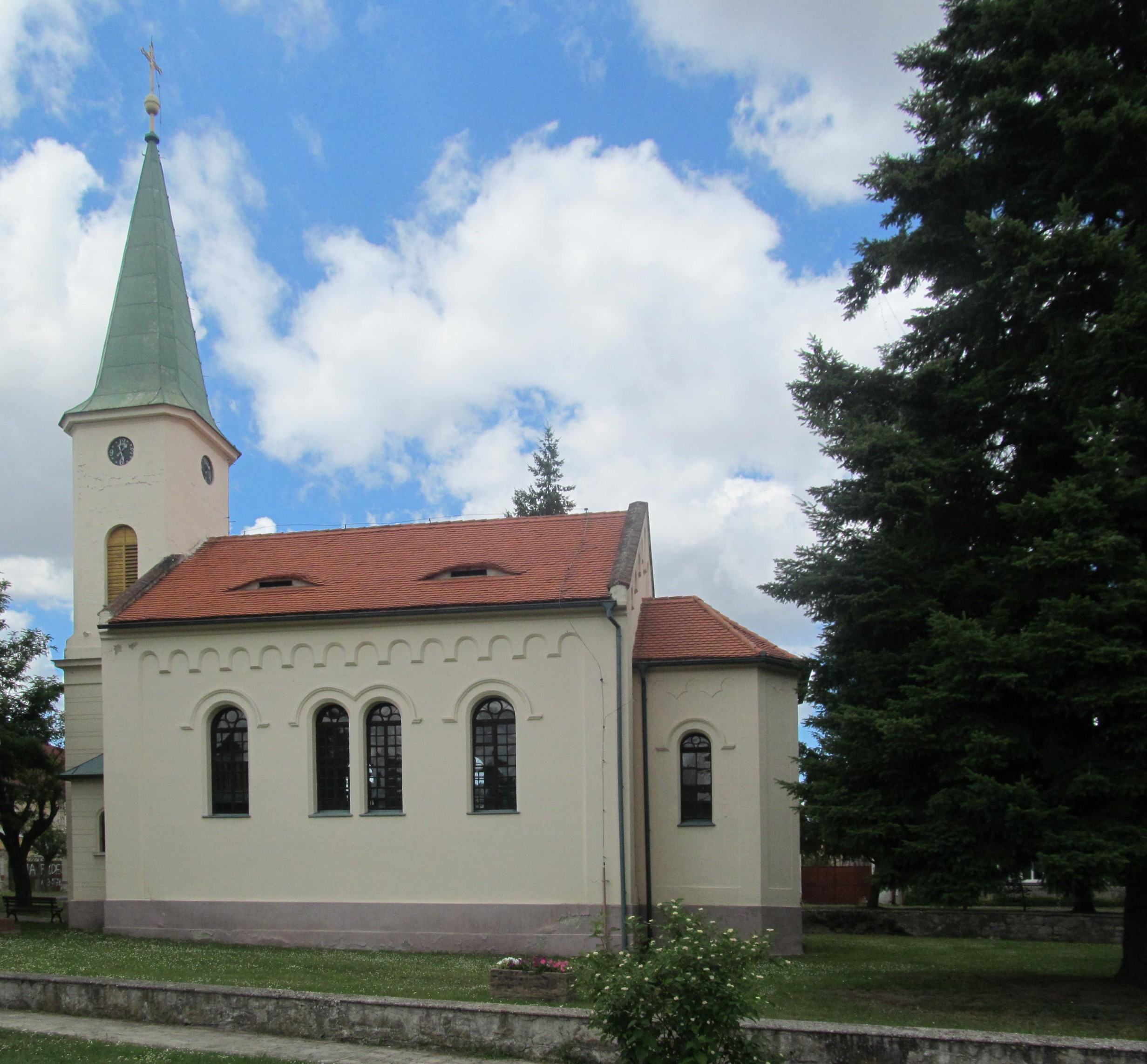 Church in Krásný Dvůr